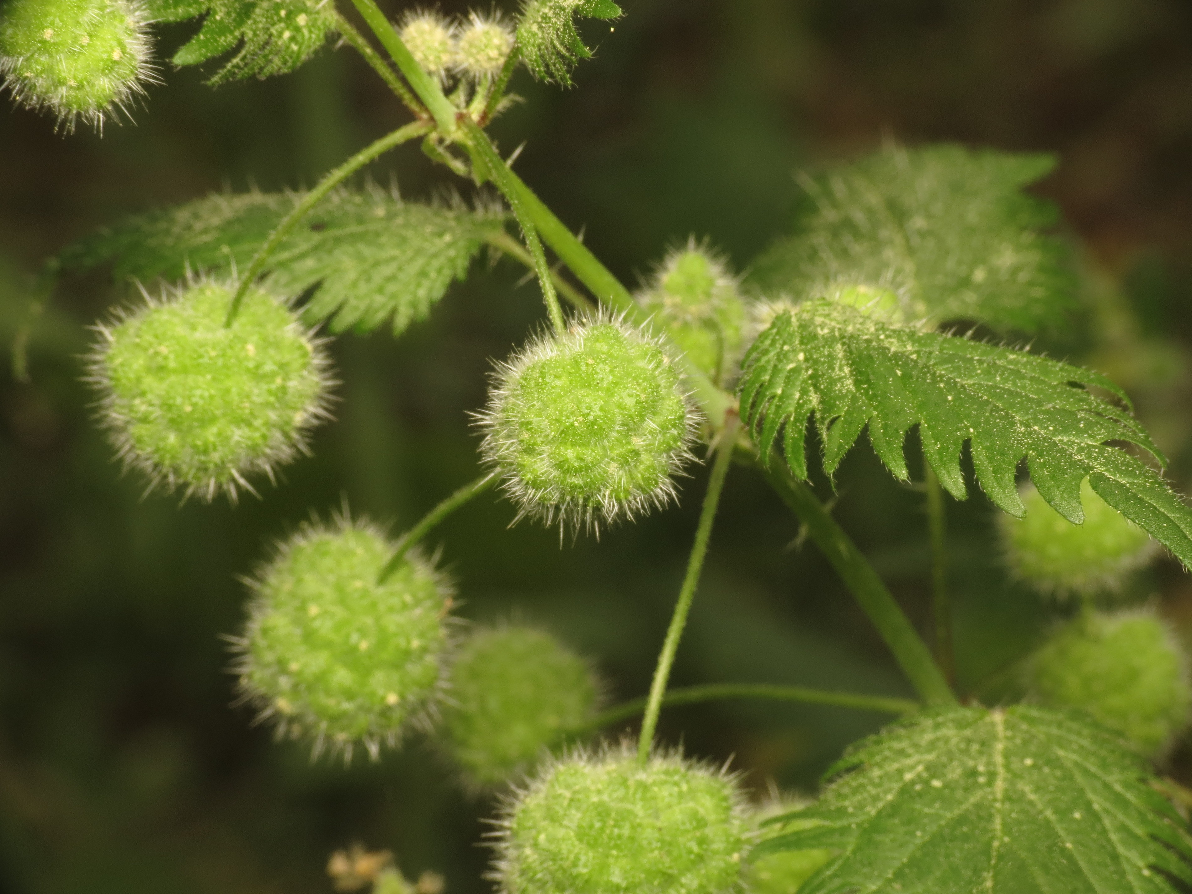 Urtica pilulifera L., Mount Lycabettus, Athens, Greece, 2 April 2014